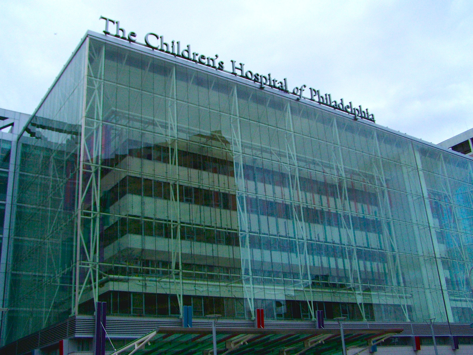 Taken in Philadelphia, Pennsylvania, in April 2006. Major renovations at Children's Hospital of Philadelphia are nearing completion. This image appears in "Genetics. Seeing a 'plot,' deCODE sues to block a DNA research center". Science 314 (5796): 30. PMID 17023616.